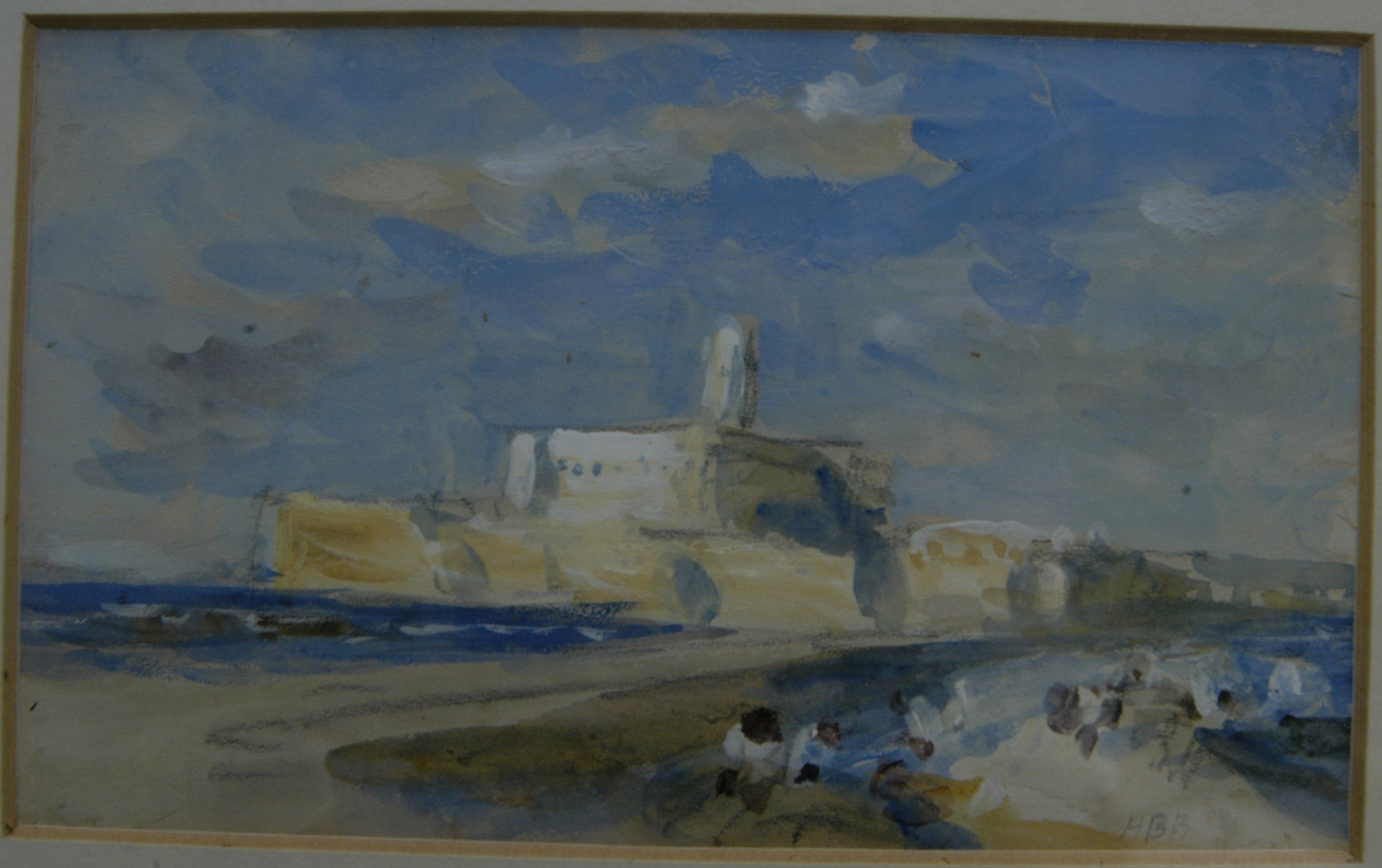 A coast scene, Mont Saint-Michel, or St Michael's Mount, watercolour. 4.25 x 8 inches, sight size.